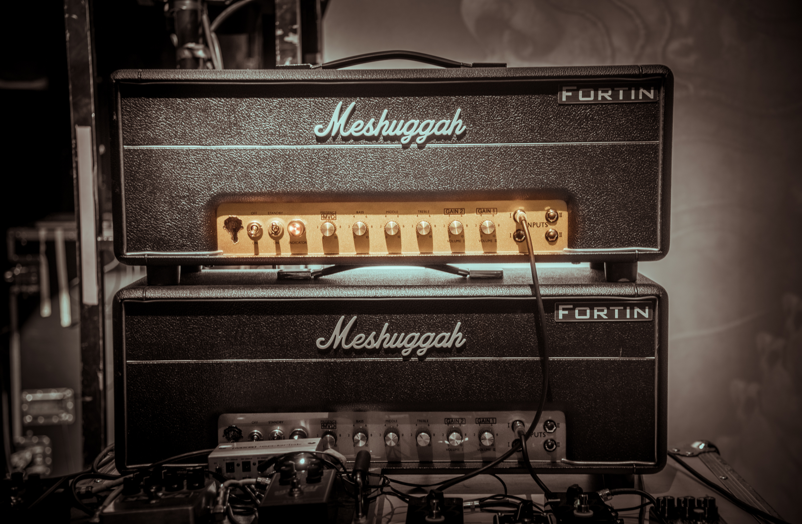 Amplifier made by Mike Fortin, for swedish metal band Meshuggah